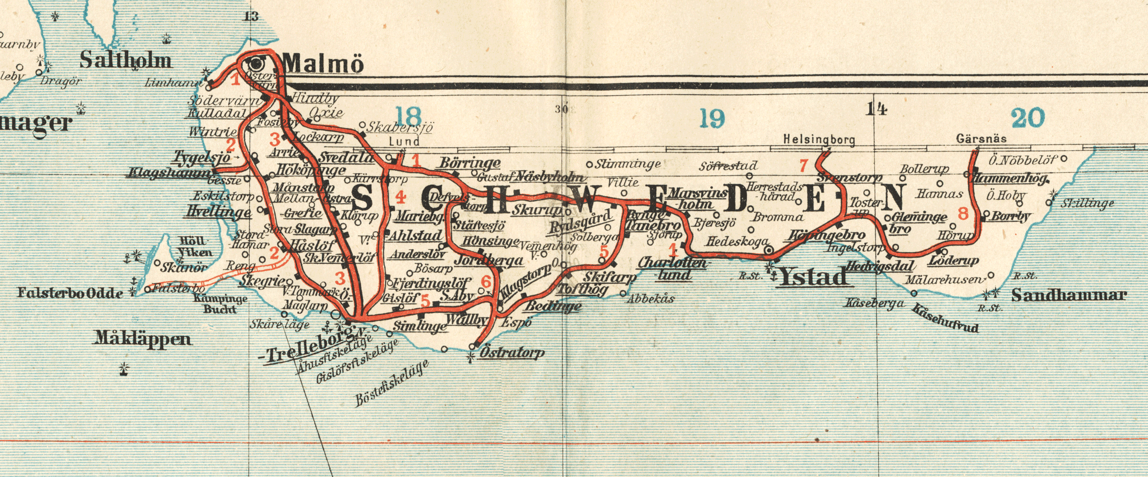 Railway map of south Sweden